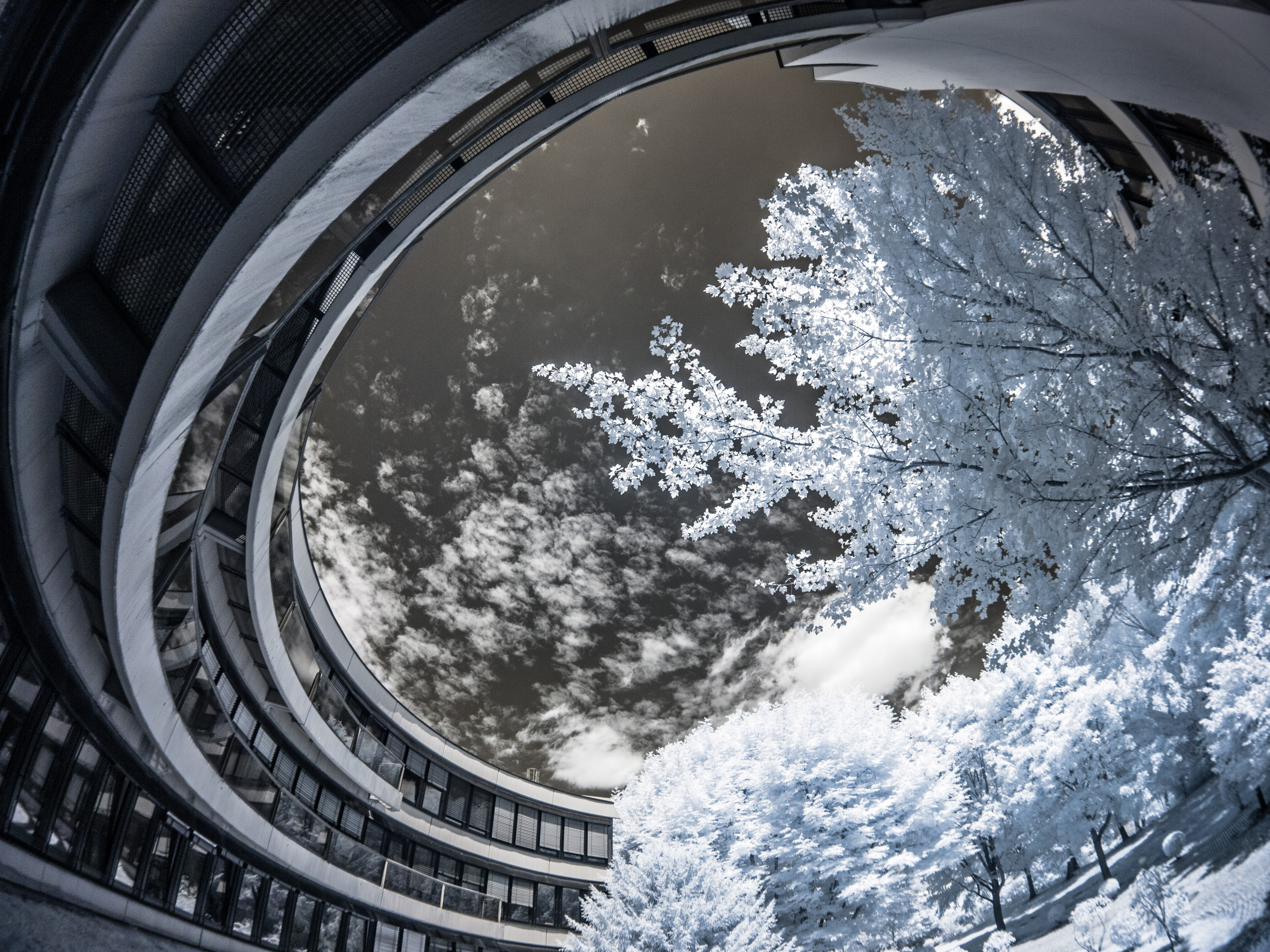 Bereft of colour in this striking infrared image, the sweeping curves of ESO's Headquarters clash with the frosty natural beauty of the surrounding trees. The extreme curvature visible in this image is due to the photographer's use of a fisheye lens, which distorts the view and causes the building to encircle the pale foliage and frame the sky above. The foliage appears to be bright as it reflects the infrared light, and the pale white hue comes from the photographer applying a white colour balance to the tree leaves. The precise curves of concrete, glass, and steel give clues as to the Headquarters building's peculiar structure. In 1981 an article in ESO's The Messenger described the ESO building as "a labyrinth of the kind used to test the intelligence of rats". But, fortunately for ESO, the writer soon noted that "human beings are on average cleverer than rats, and the problem is quickly solved". This image was taken by ESO computer specialist Dirk Essl.